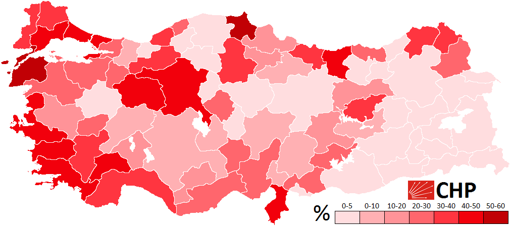 Results obtained by the CHP by province in the Turkish local elections of 2014.